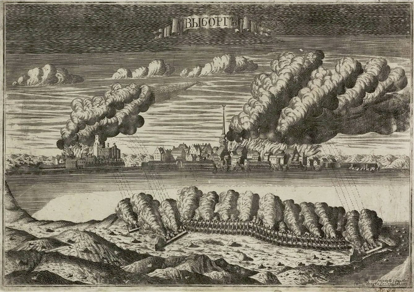 A view of the siege on 13 June 1710